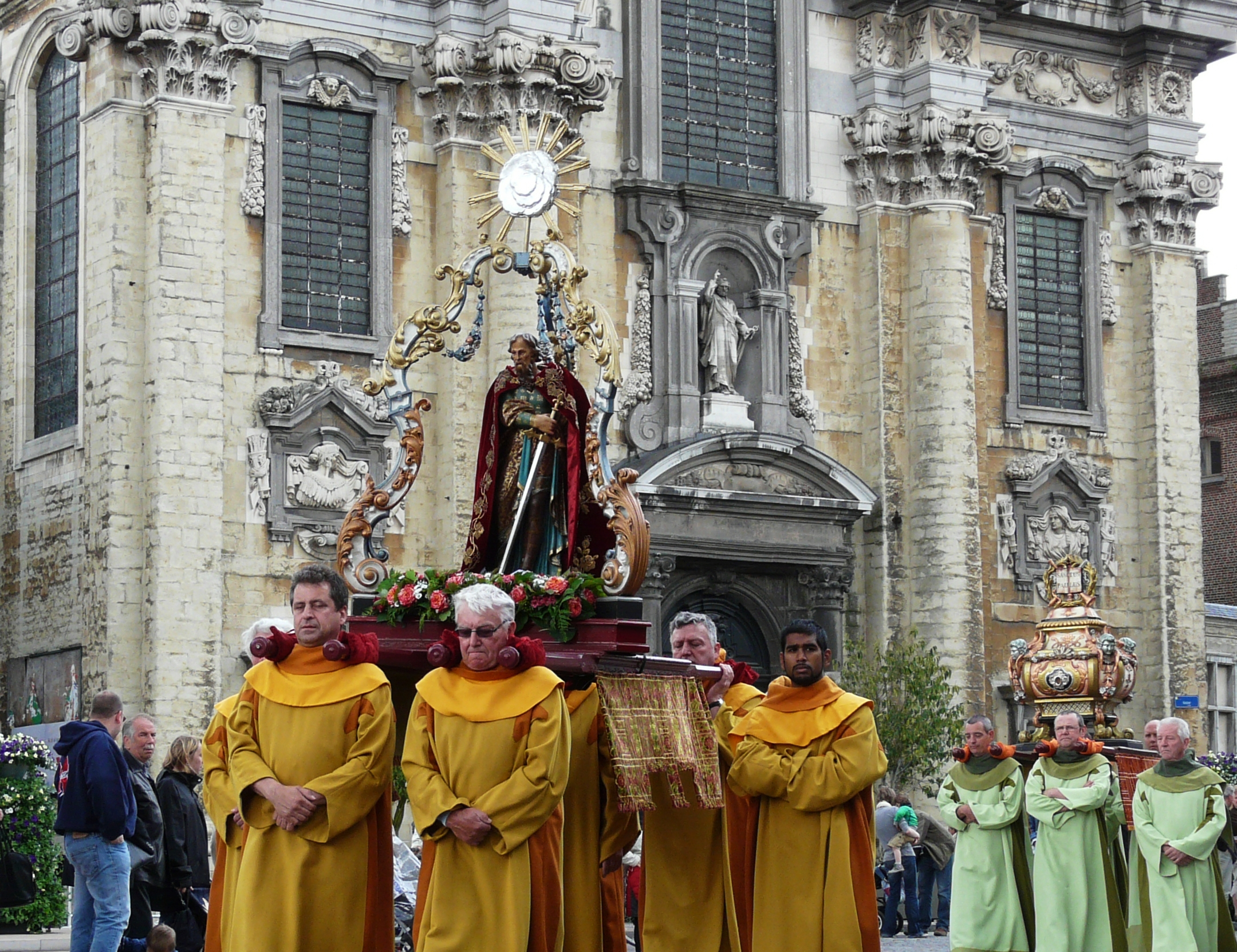 In 988 a ship sailed up the Dijle, with a wooden image of the Virgin Mary on board.